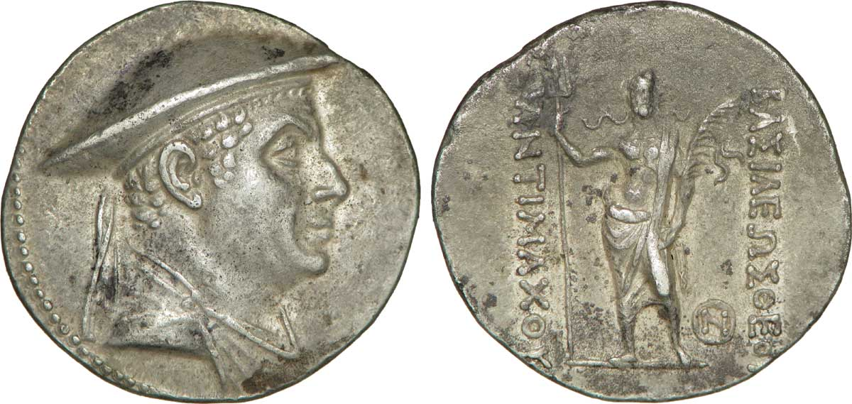 Tétradrachme du Royaume de Bactriane à l'effigie d'Antimaque Ier Théos. Date : c. 174-165 AC. Description avers : Buste diadémé et drapé d’Antimaque Ier à droite, coiffé de la kausia . Description revers : Poséidon debout de face, à demi-nu, le manteau (himation) sur l’épaule, tenant un trident de la main droite et une palme de la main gauche .